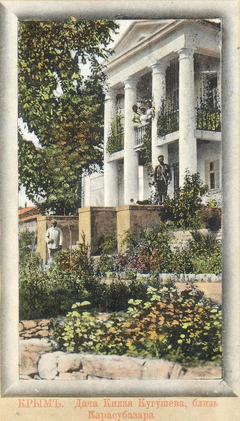 The estate of Prince Kugusheva, village Sartana, Crimea (now Alekseevka Belogorskogo district of Crimea)